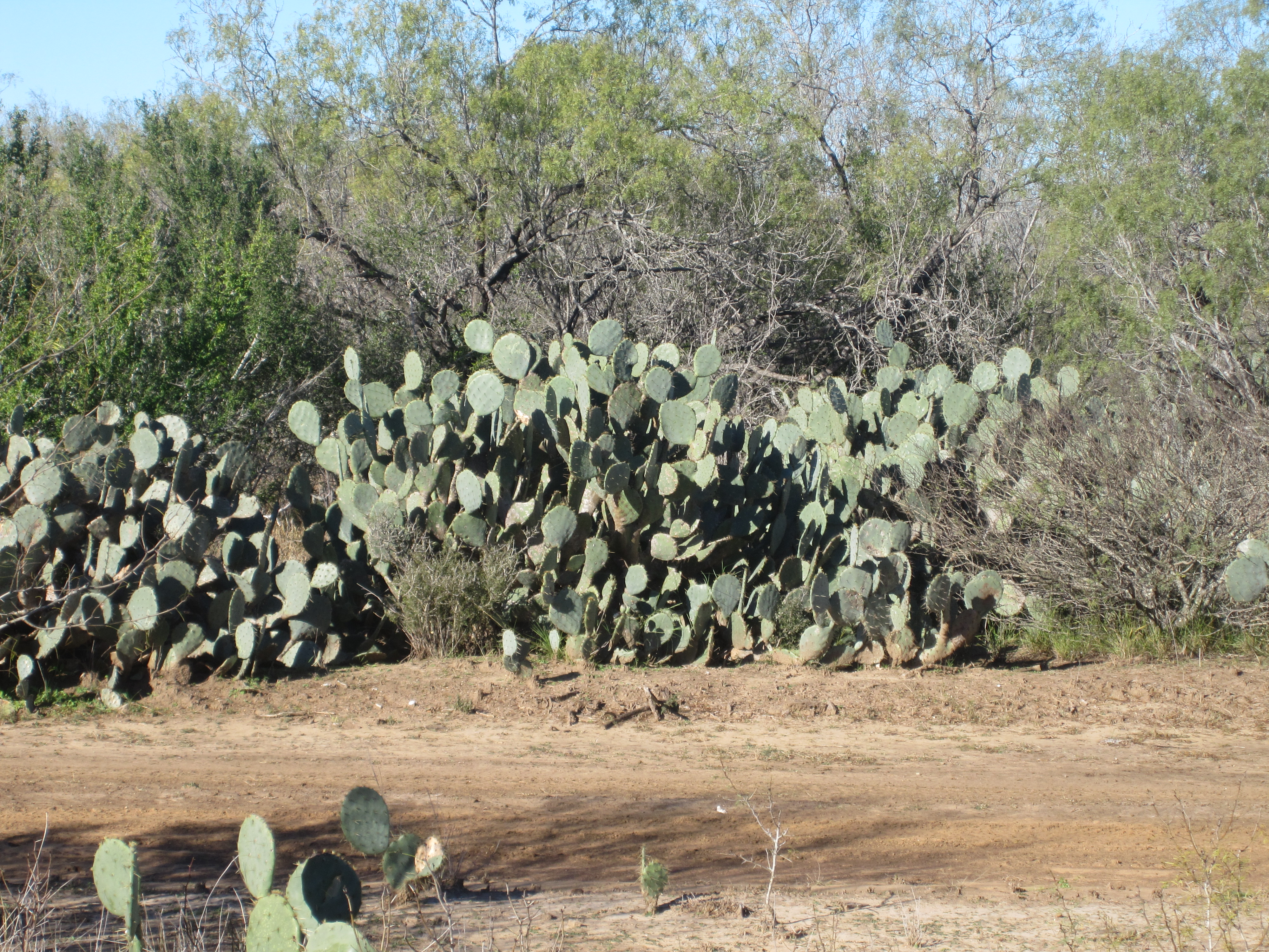 Cactus in La Salle County, TX